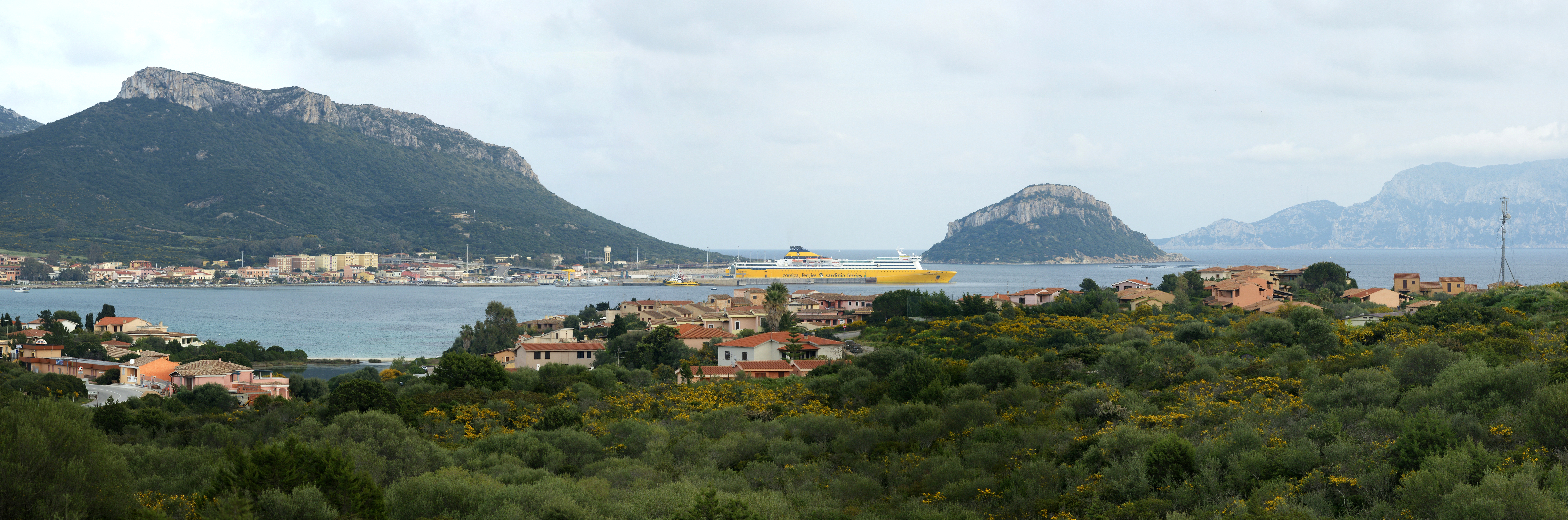 Corsica Ferries getting ready to cast of for Livorno at Golfo Aranci, Sardinia, Italy